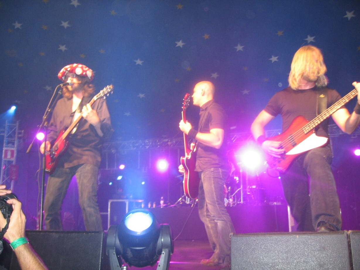 Swedish heavy metal band Lake of Tears performing at Tuska Open Air Metal Festival 2005.